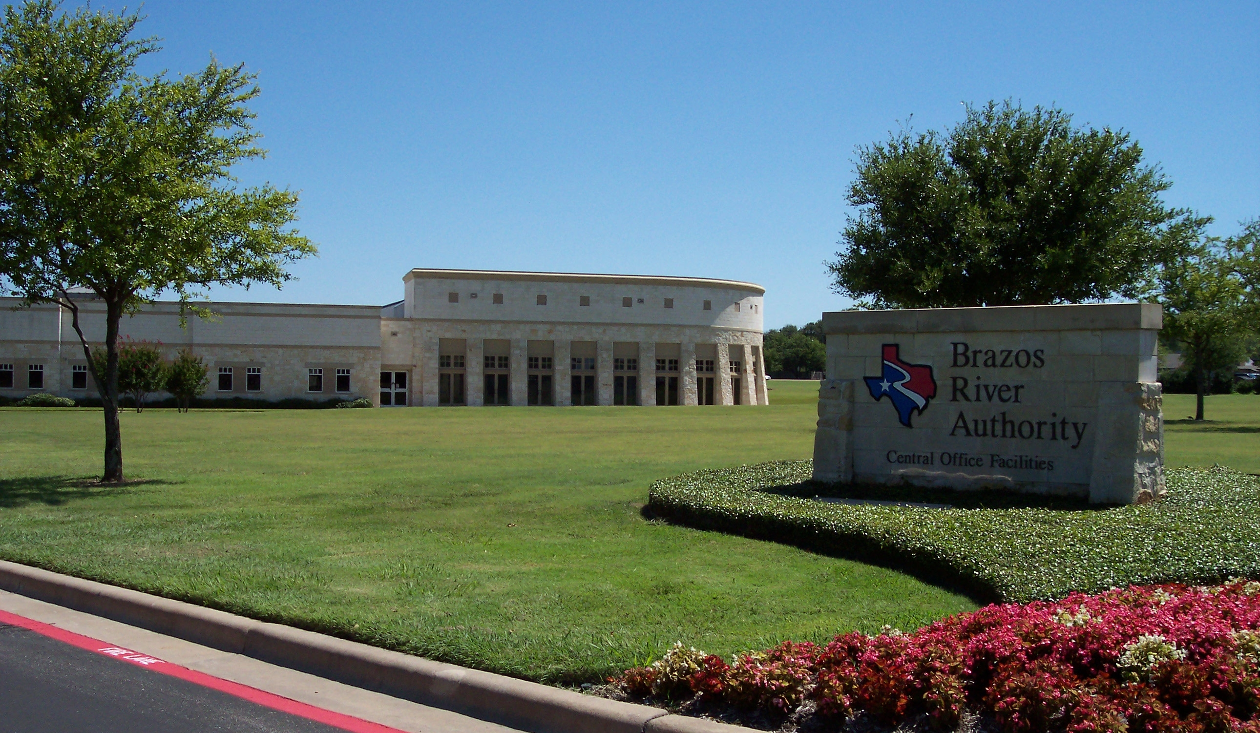 Brazos River Authority Central Office 1a